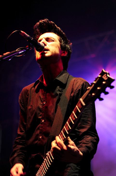 Soundwave Festival 2010